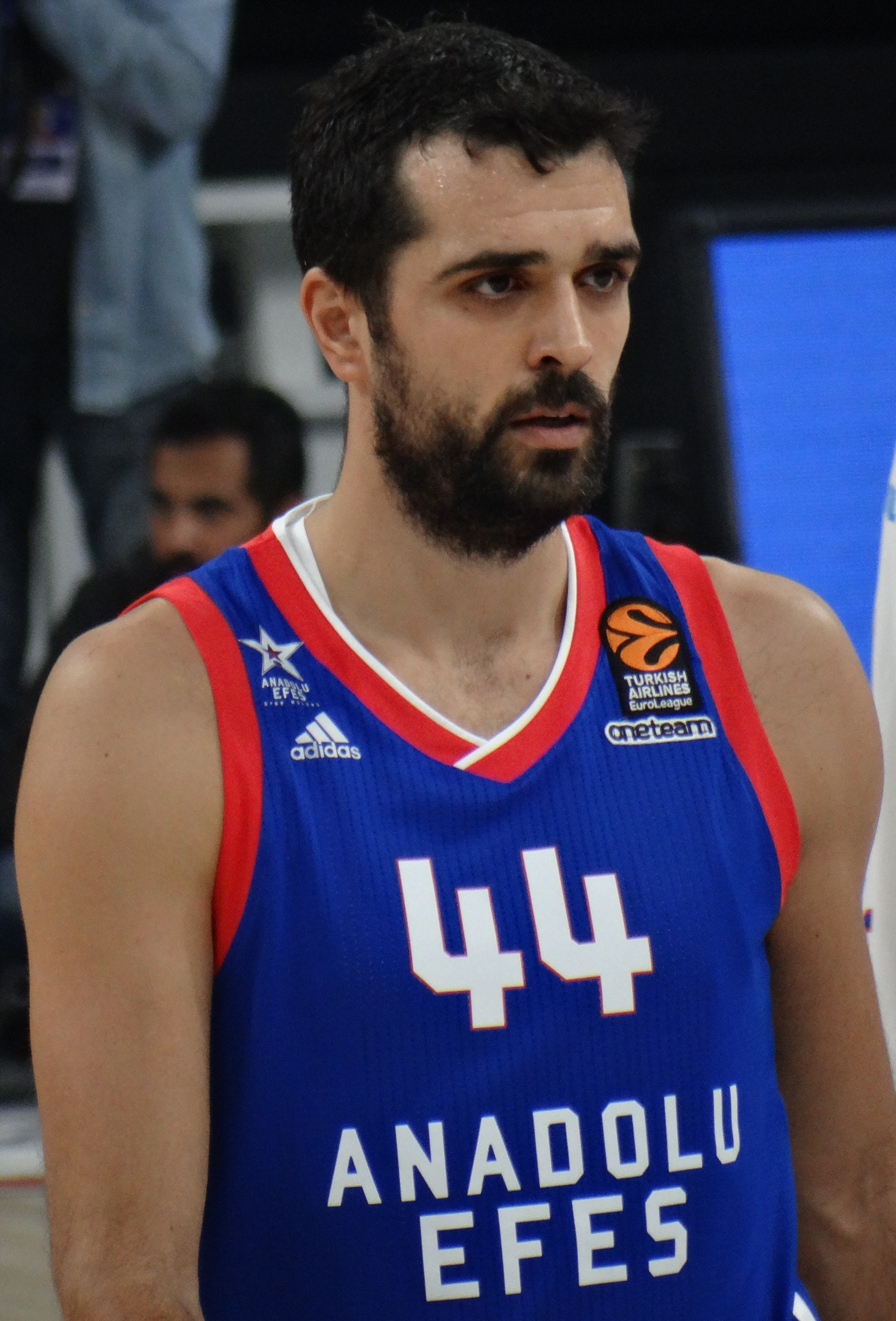 Krunoslav Simon 44 - Anadolu Efes S.K. 20171027